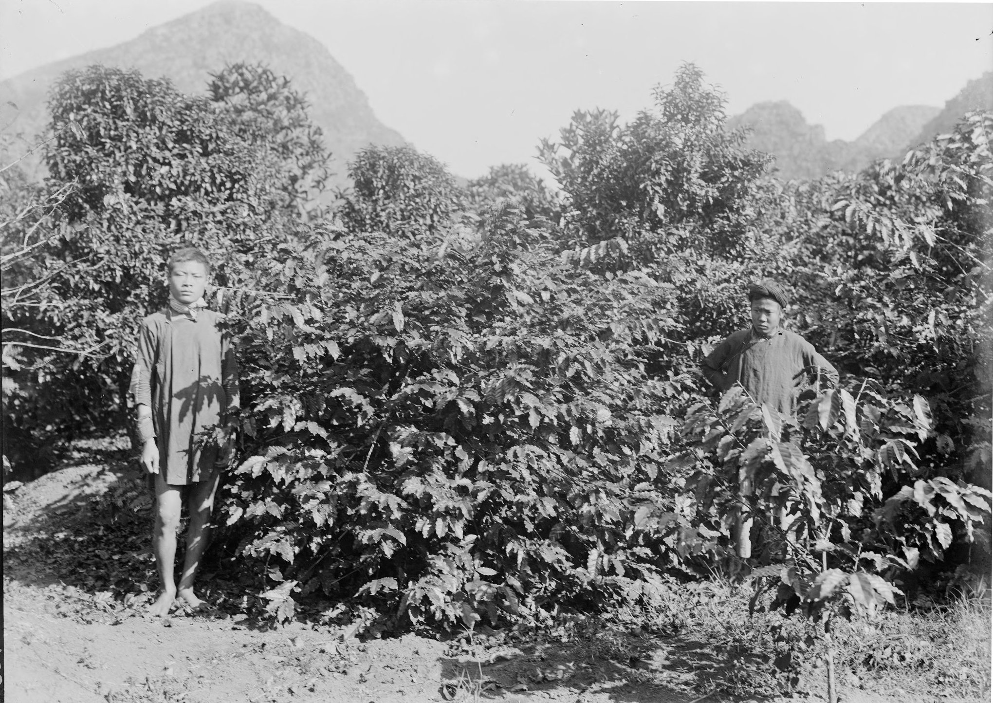 Coffee tree on the Cressonnière plantation, near Kécheu. 1898. Rotated and cropped with GIMP